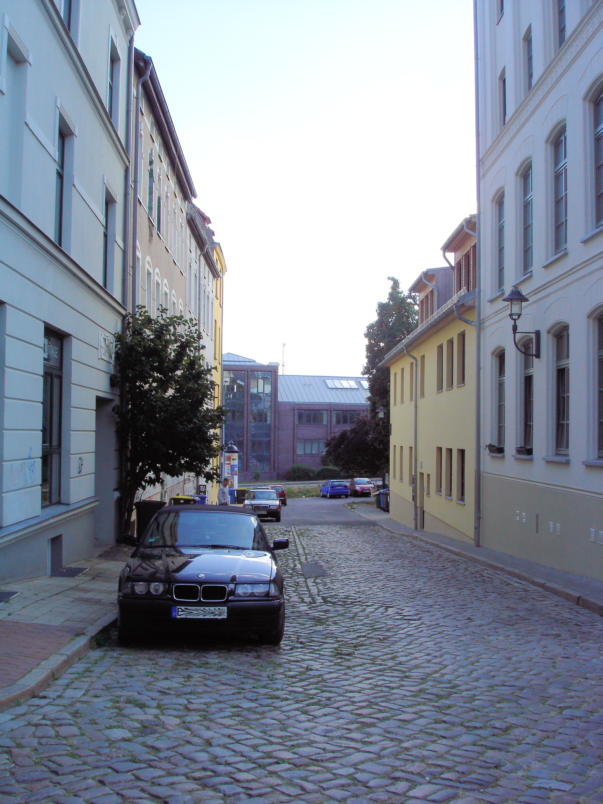 Street in the historic city of Rostock